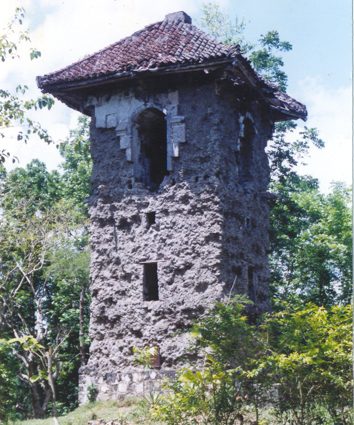 Spanish Belfry in Poblacion, Balilihan, Bohol - served as the watch tower during Spanish regime in the Philippines